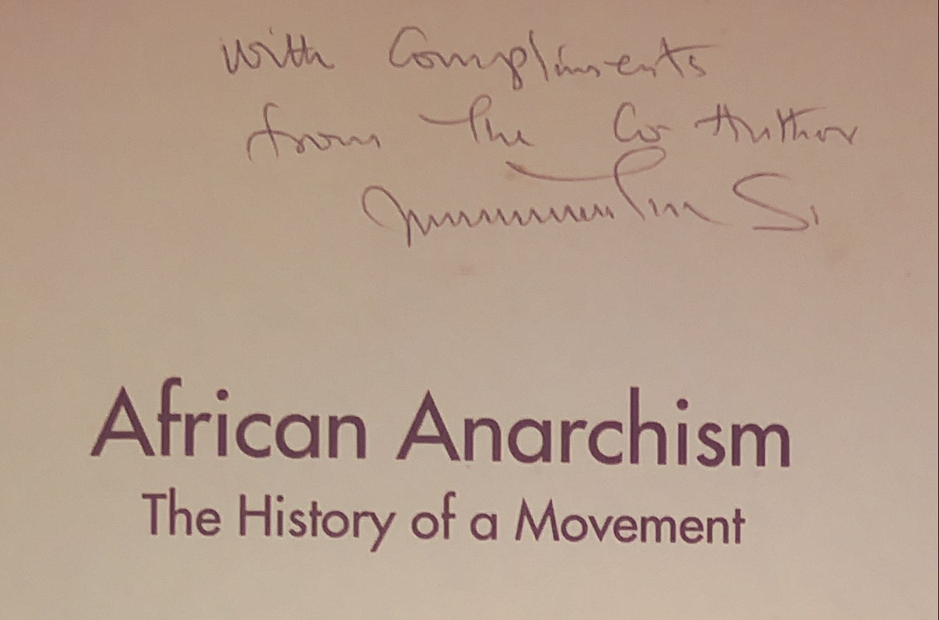 Sam Mbah's inscription for Jay Dobkin in African Anarchism: The History of a Movement (by Mbah & I. E. Igariwey): "With Compliments from the Co Author Mbah S.